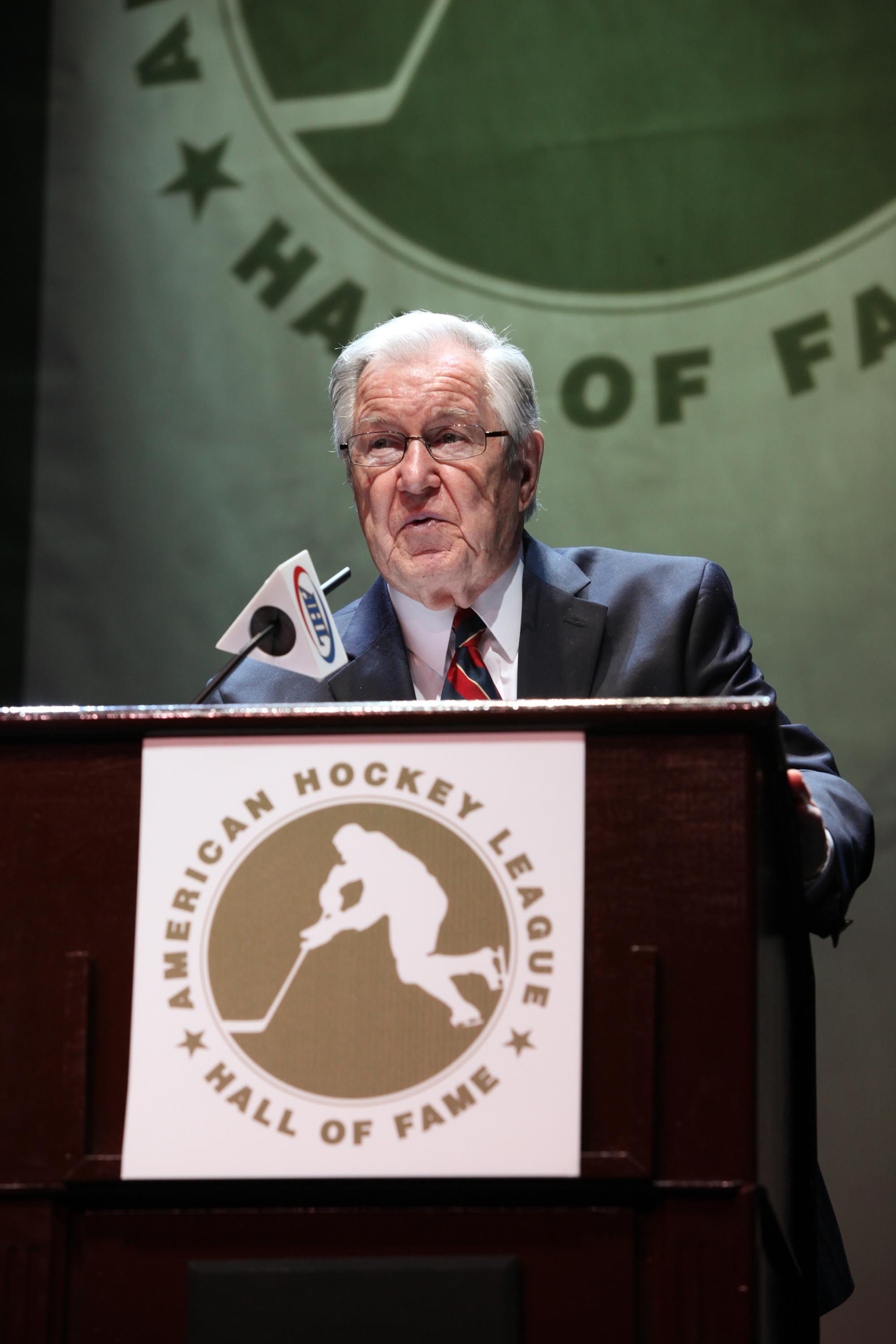 PhotoGraphics Photography/AHL